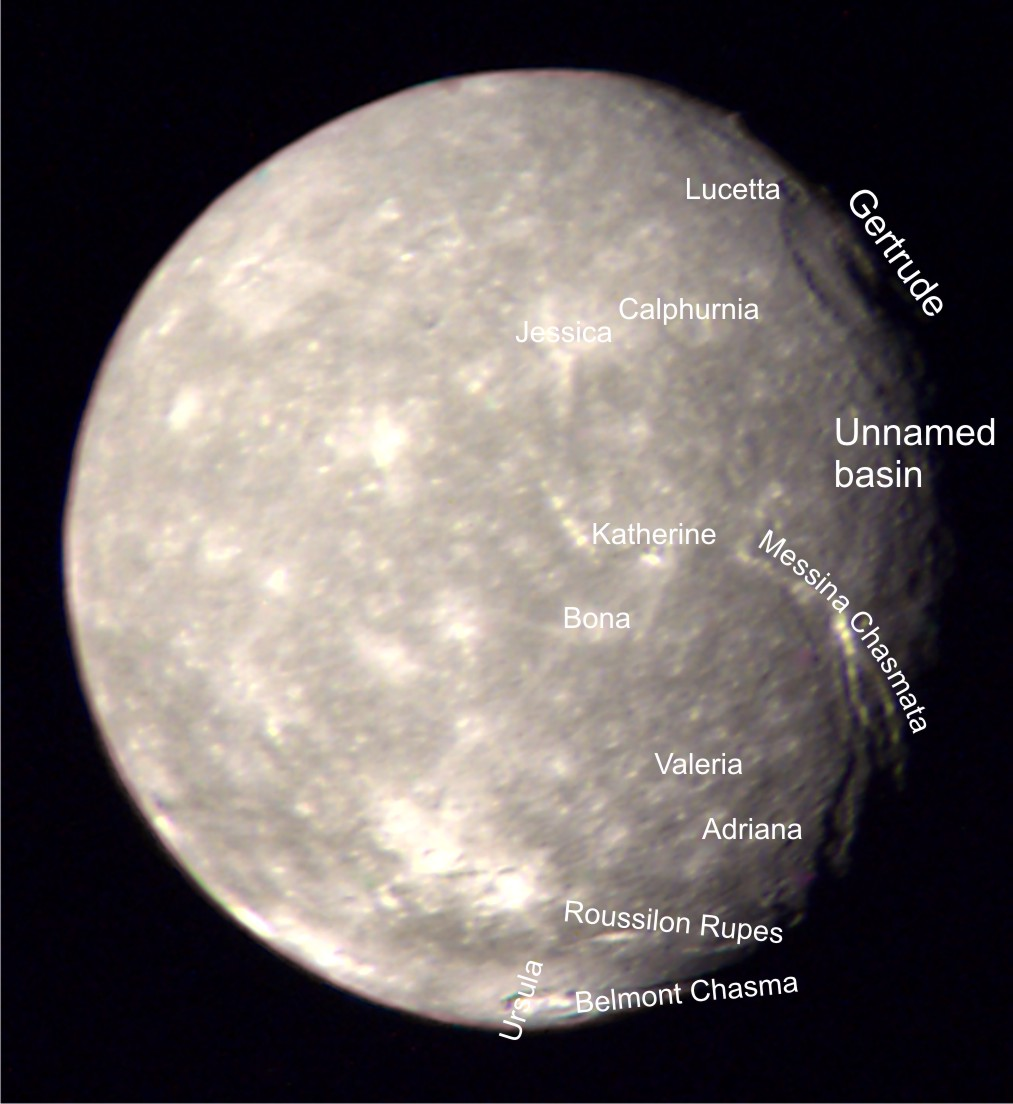 Original caption: This high-resolution color composite of Titania was made from Voyager 2 images taken Jan. 24, 1986, as the spacecraft neared its closest approach to Uranus. Voyager's narrow-angle camera acquired this image of Titania, one of the large moons of Uranus, through the violet and clear filters. The spacecraft was about 500,000 kilometers (300,000 miles) away; the picture shows details about 9 km (6 mi) in size. Titania has a diameter of about 1,600 km (1,000 mi). In addition to many scars due to impacts, Titania displays evidence of other geologic activity at some point in its history. The large, trenchlike feature near the terminator (day-night boundary) at middle right suggests at least one episode of tectonic activity. Another, basinlike structure near the upper right is evidence of an ancient period of heavy impact activity. The neutral gray color of Titania is characteristic of the Uranian satellites as a whole. The Voyager project is managed for NASA by the Jet Propulsion Laboratory.